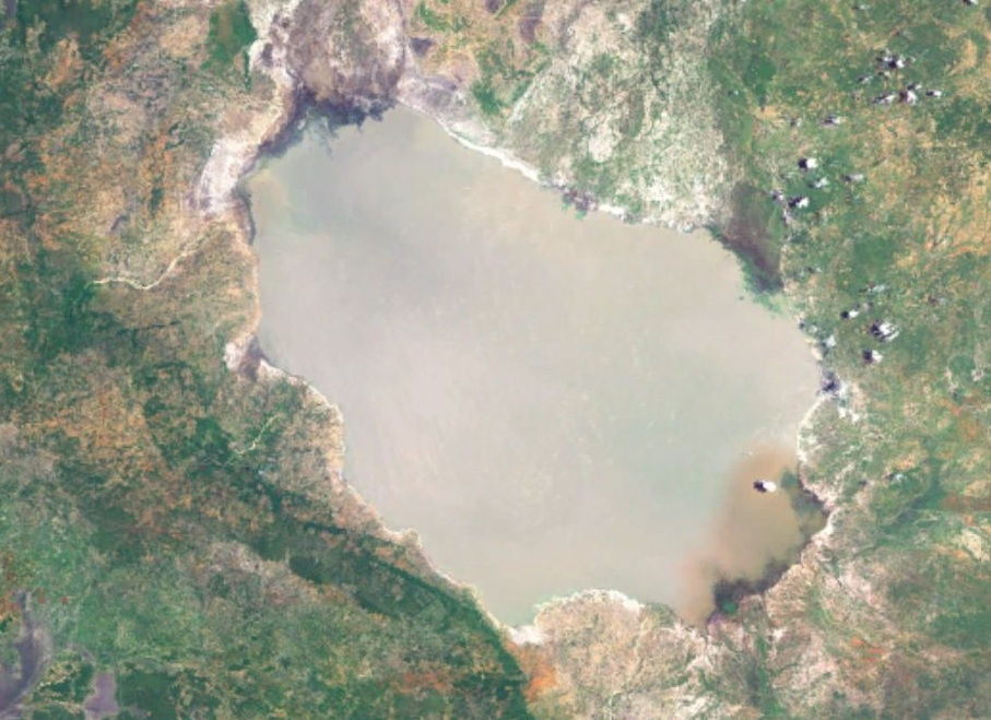 Lake Sulunha (Bahi swamp)